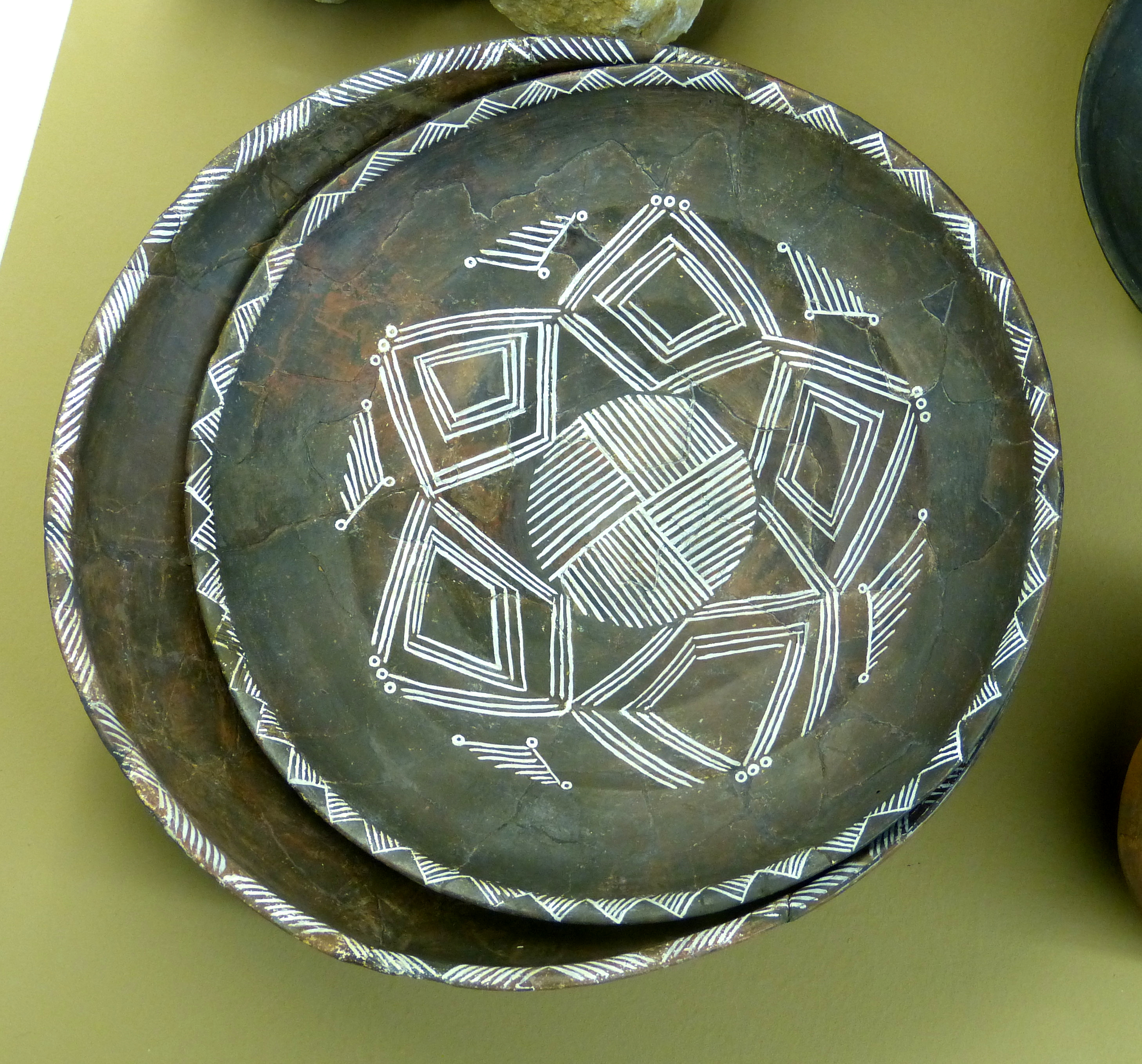 Kelheim ( Lower Bavaria ). Archaeological Museum: Pottery from tumulus III of the Hallstatt culture cemetery at Riedenburg-Haidhof.